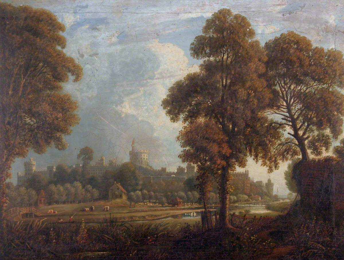 Windsor Castle. William Crotch (1775–1847)